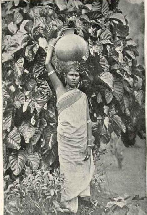 Tamil woman laborer in Sri Lankan tea plantation